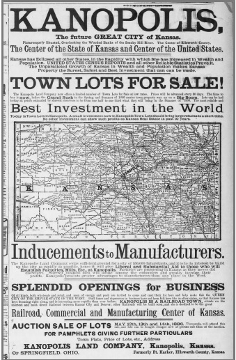 Map featuring Kanopolis that appeared in May 13, 1886 Lawrence Journal World, page 3. Accessed via